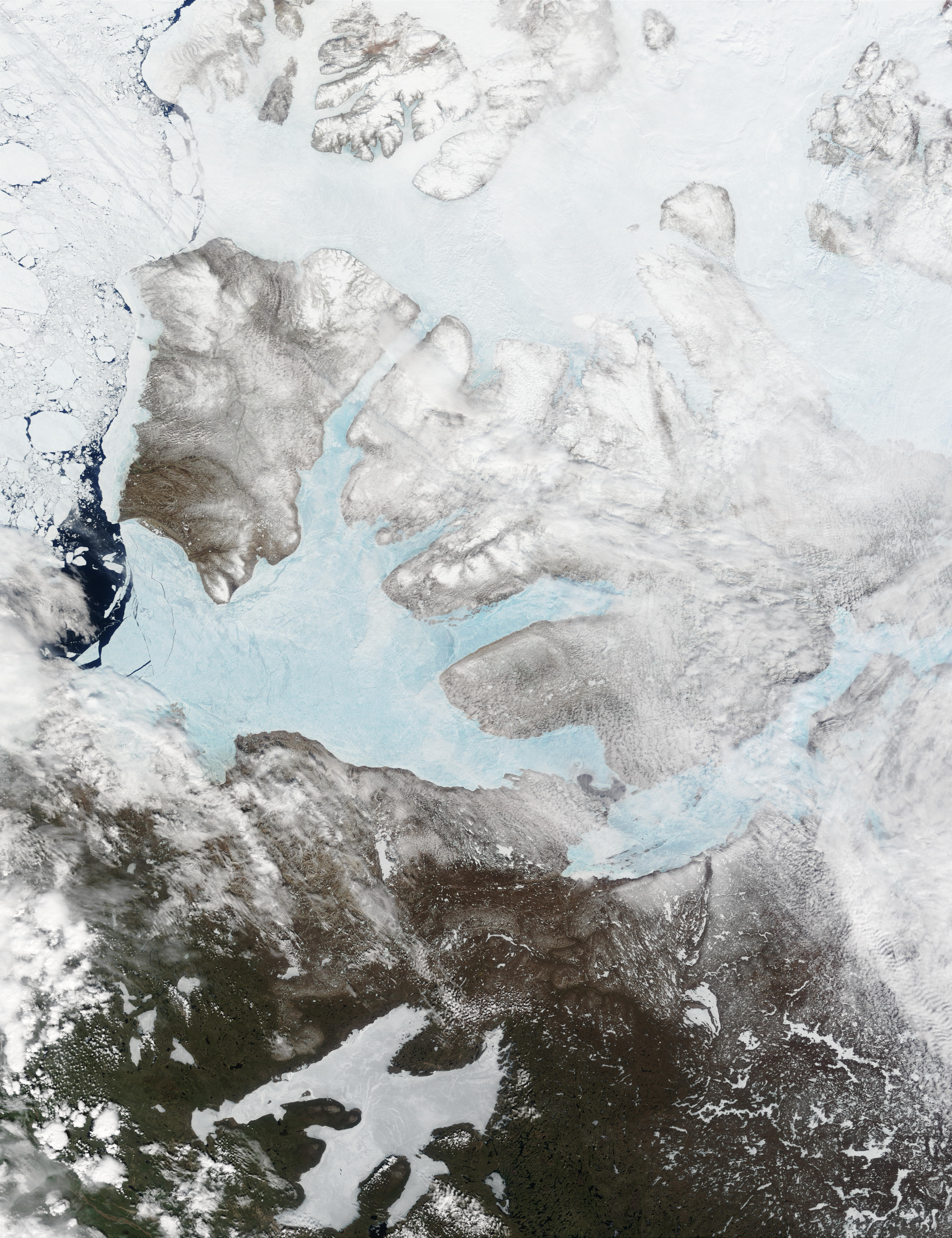 These Moderate resolution Imaging Spectroradiometer Images from June 14 and 16, 2002, show Banks Island (upper left) and Victoria Island (to the southeast) in the Arctic Ocean off northwest Canada. Left of center in each image is Amundsen Gulf, looking bright blue as this arm of the Beaufort Sea (at the southern end of the Arctic Ocean) begins to thaw. At the bottom of the images, the tundra of the Northwest Territories (left) and the Nunavut (right) Provinces of Canada is beginning to lose its winter snow cover. At bottom center of the portrait oriented image is Great Bear lake--still frozen.